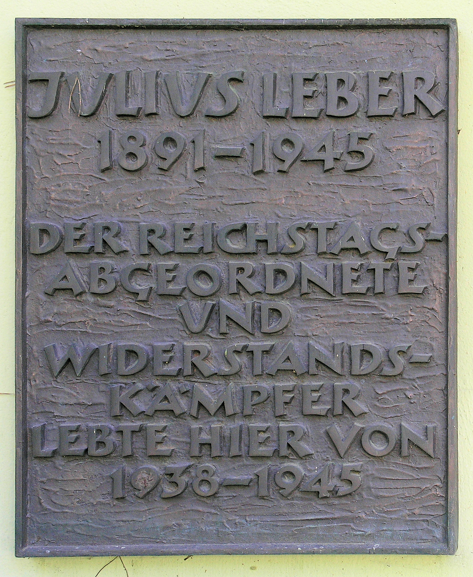 Memorial plaque, Julius Leber, Eisvogelweg 71, Berlin-Zehlendorf, Germany Koordinate:52°26′58″N 13°15′26″E / 52.44944°N 13.25722°E